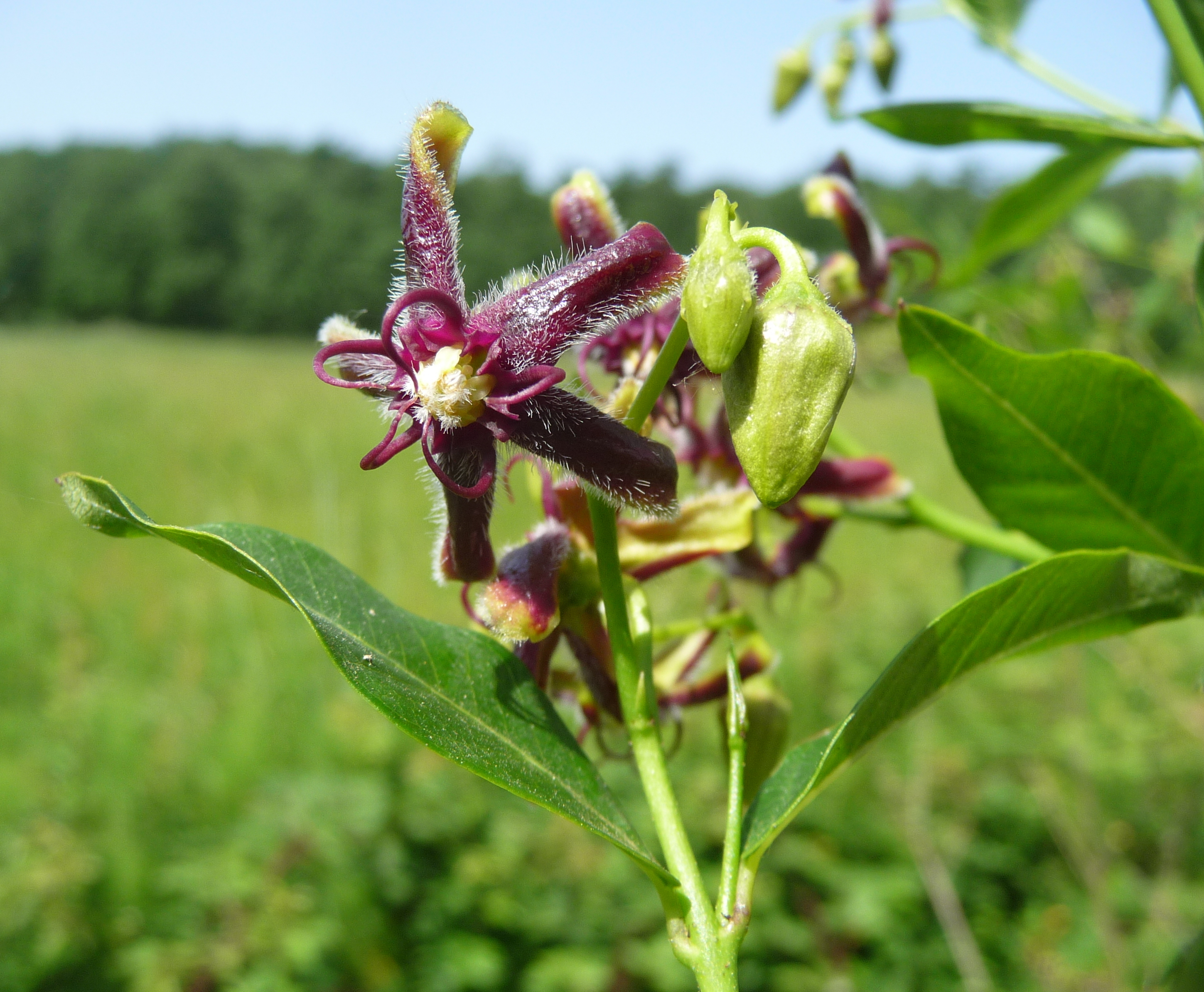 Periploca graeca, near Livorno, Tuscany, Italy